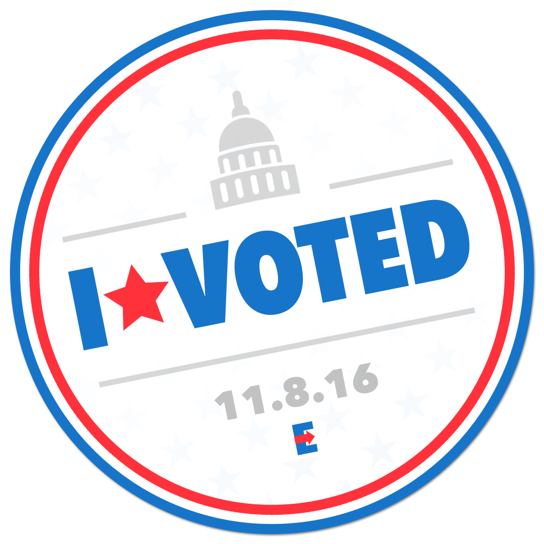 I voted